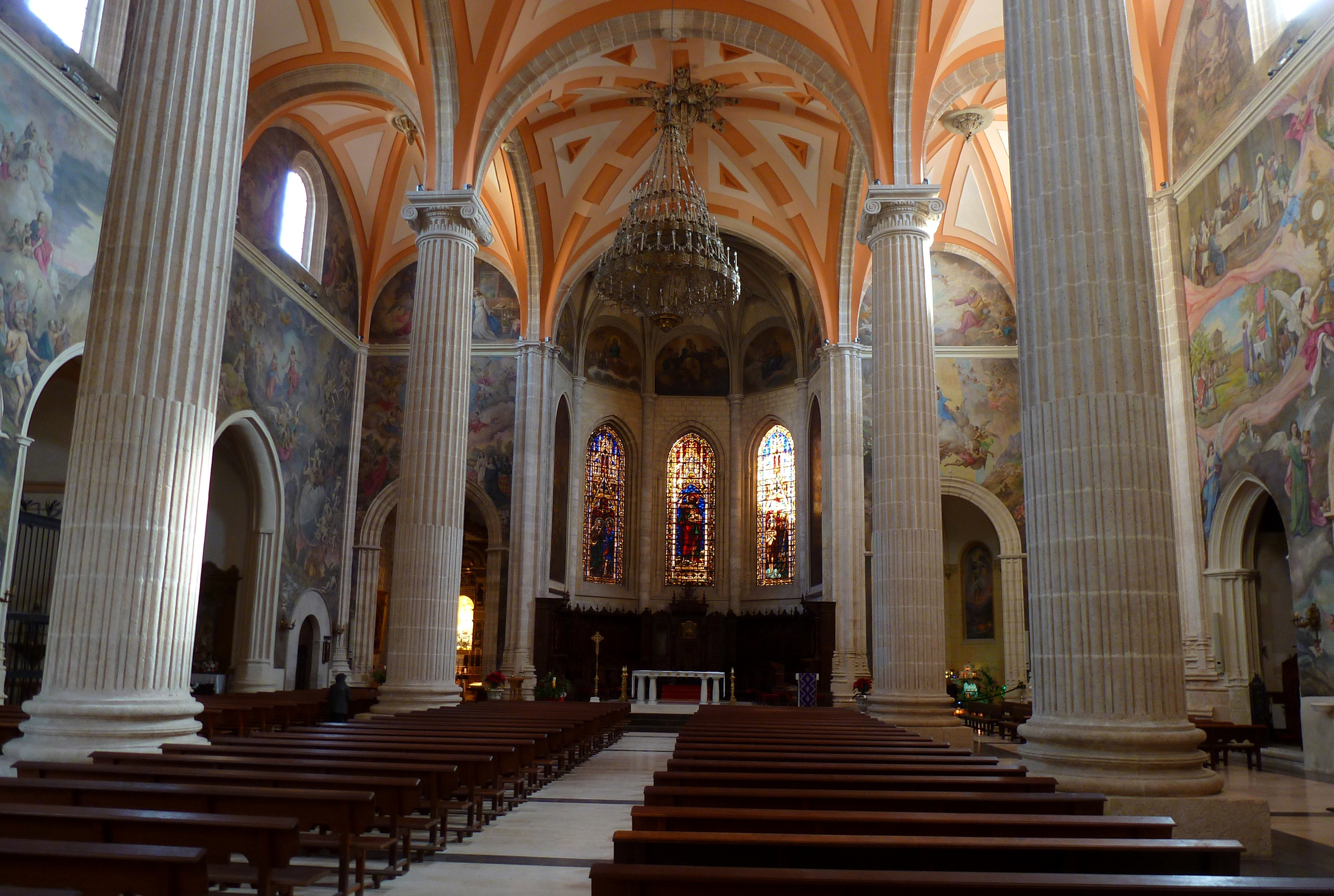 Inside view of the Albacete Cathedral, Spain.